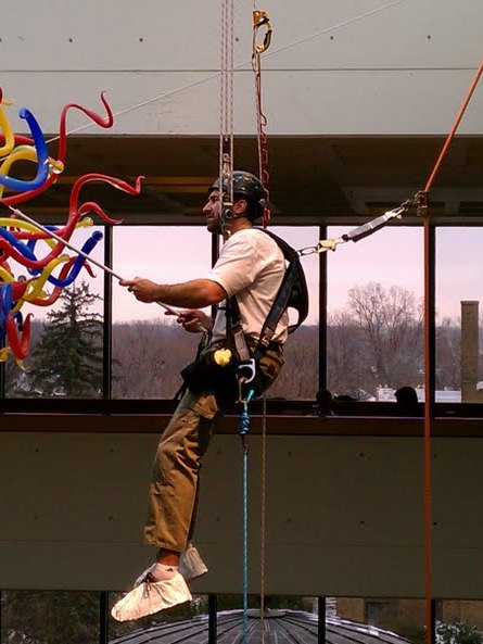 A contractor cleans the Dale Chihuly sculpture, Fireworks of Glass, in The Children's Museum of Indianapolis.